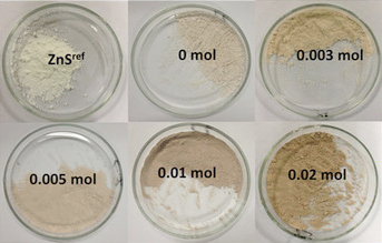 ZnS powders containing different concentrations of sulfur vacancies